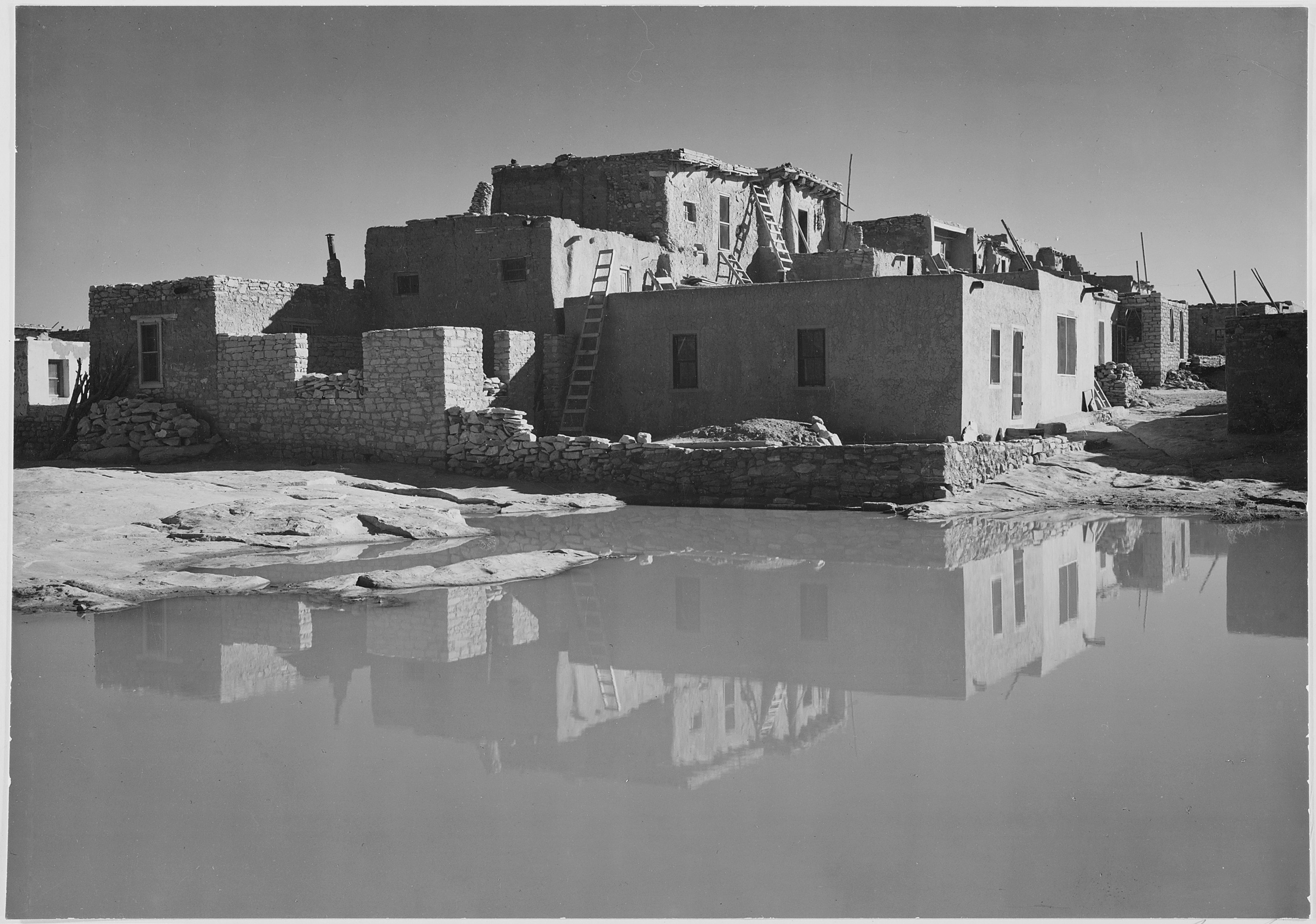 Full side view of adobe house with water in foreground, "Acoma Pueblo [National Historic Landmark, New Mexico]."; From the series Ansel Adams Photographs of National Parks and Monuments, compiled 1941 - 1942, documenting the period ca. 1933 - 1942.